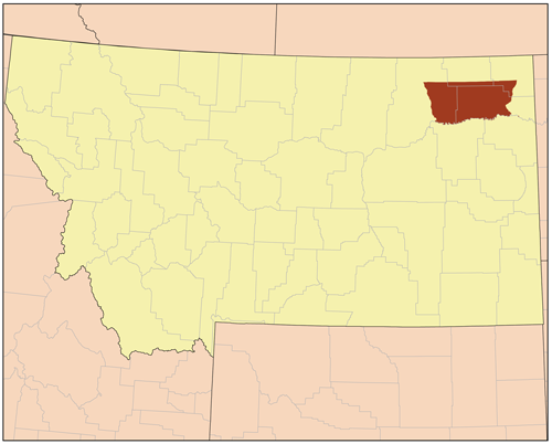 Map of the Fort Peck Indian Reservation.